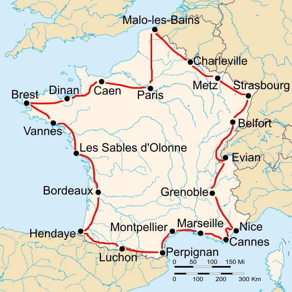 Route of the 1930 Tour de France, starting and finishing in Paris.